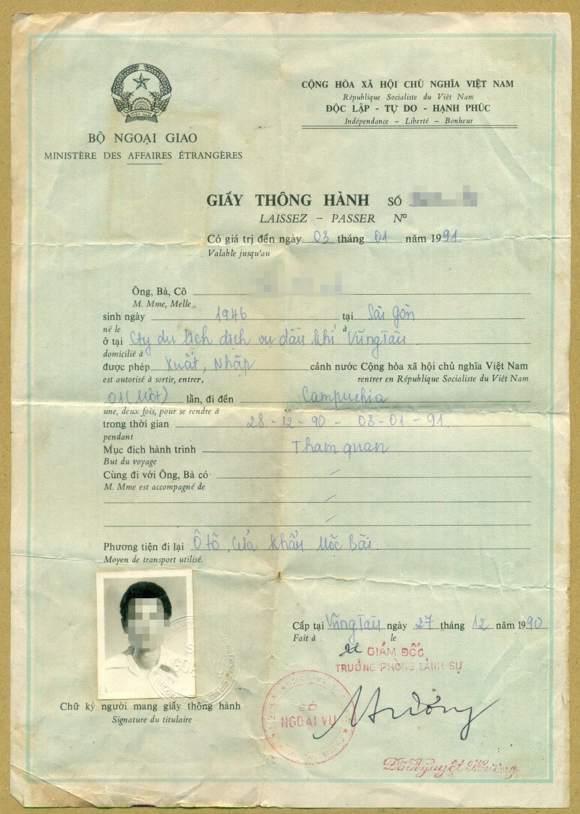 A Vietnam Laissez-Passer issued in 1990 to a Vietnamese citizen to travel to Cambodia for tourist purpose